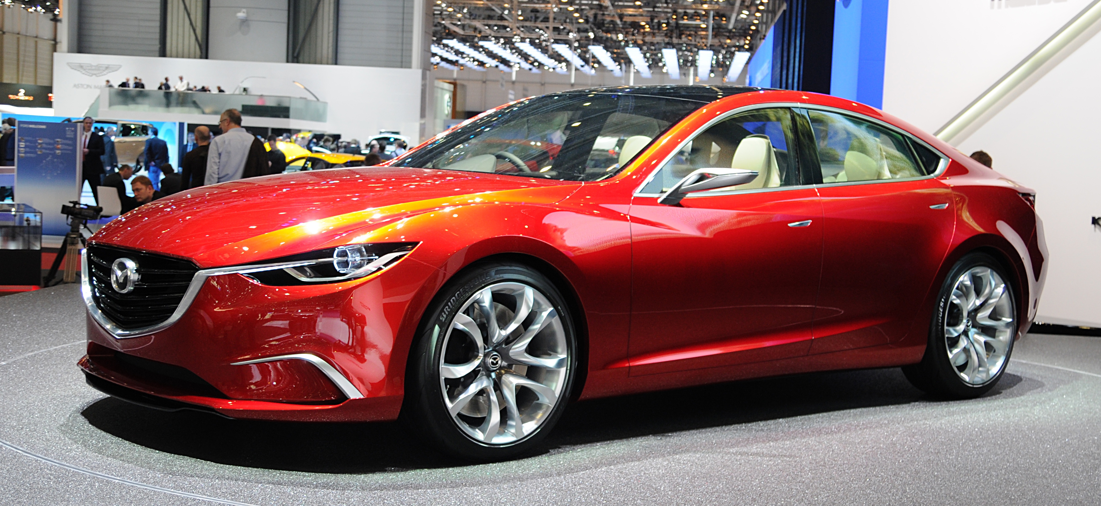 Geneva Motor Show 2012 (photos taken on the second press day)